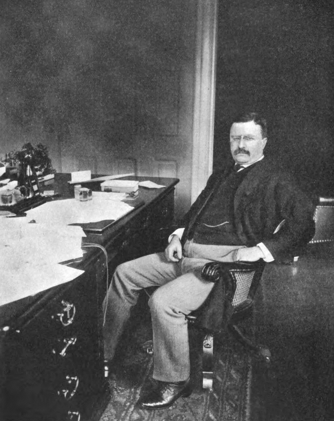 "President Roosevelt in his private office at the White House, Washington."